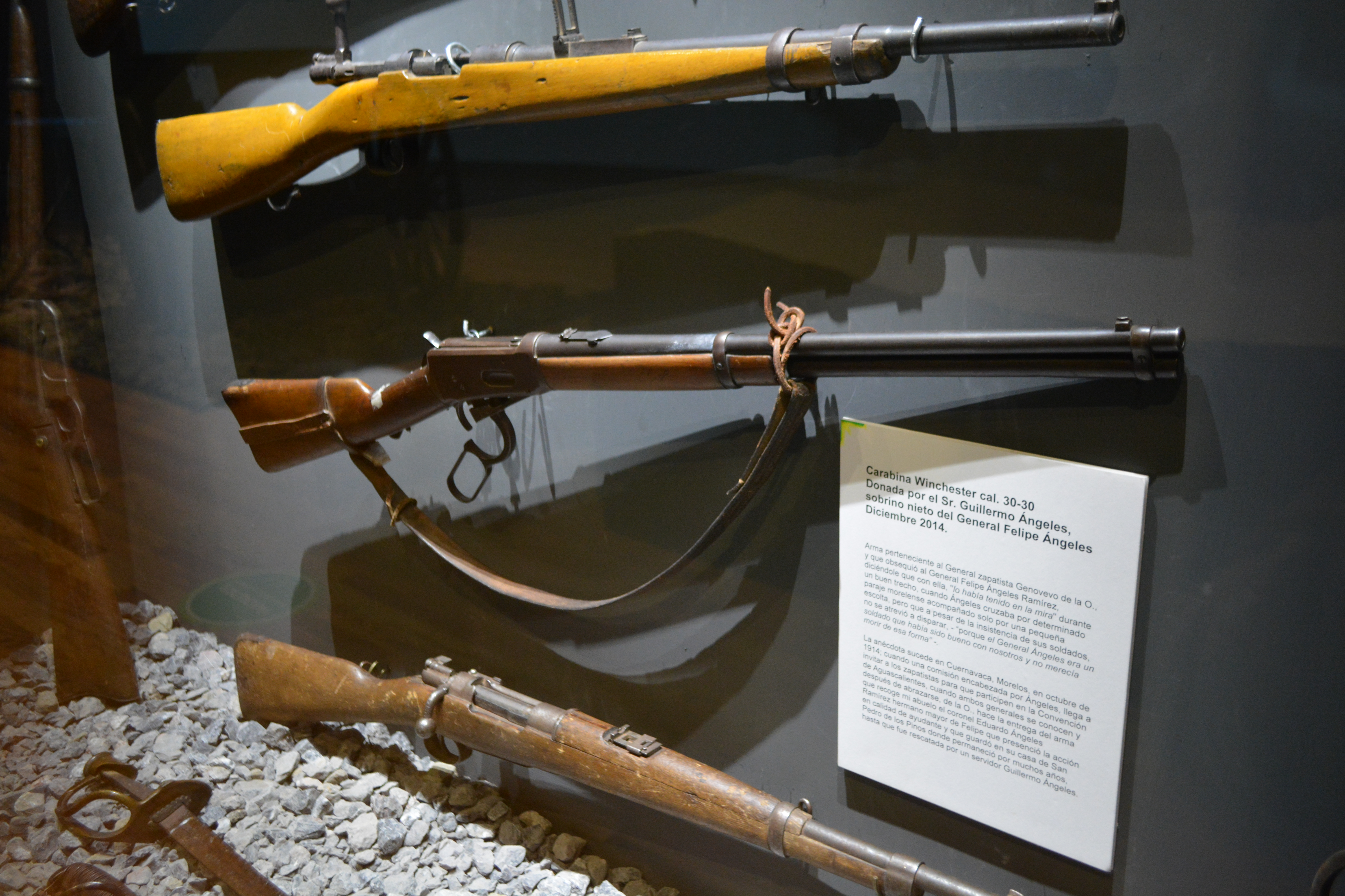 Winchester rifle that belongs to the general Genovevo de la O and gave as a gift to General Felipe Angeles. Toma de Zacatecas museum, Cerro de la Bufa, Zacatecas City, Zacatecas.